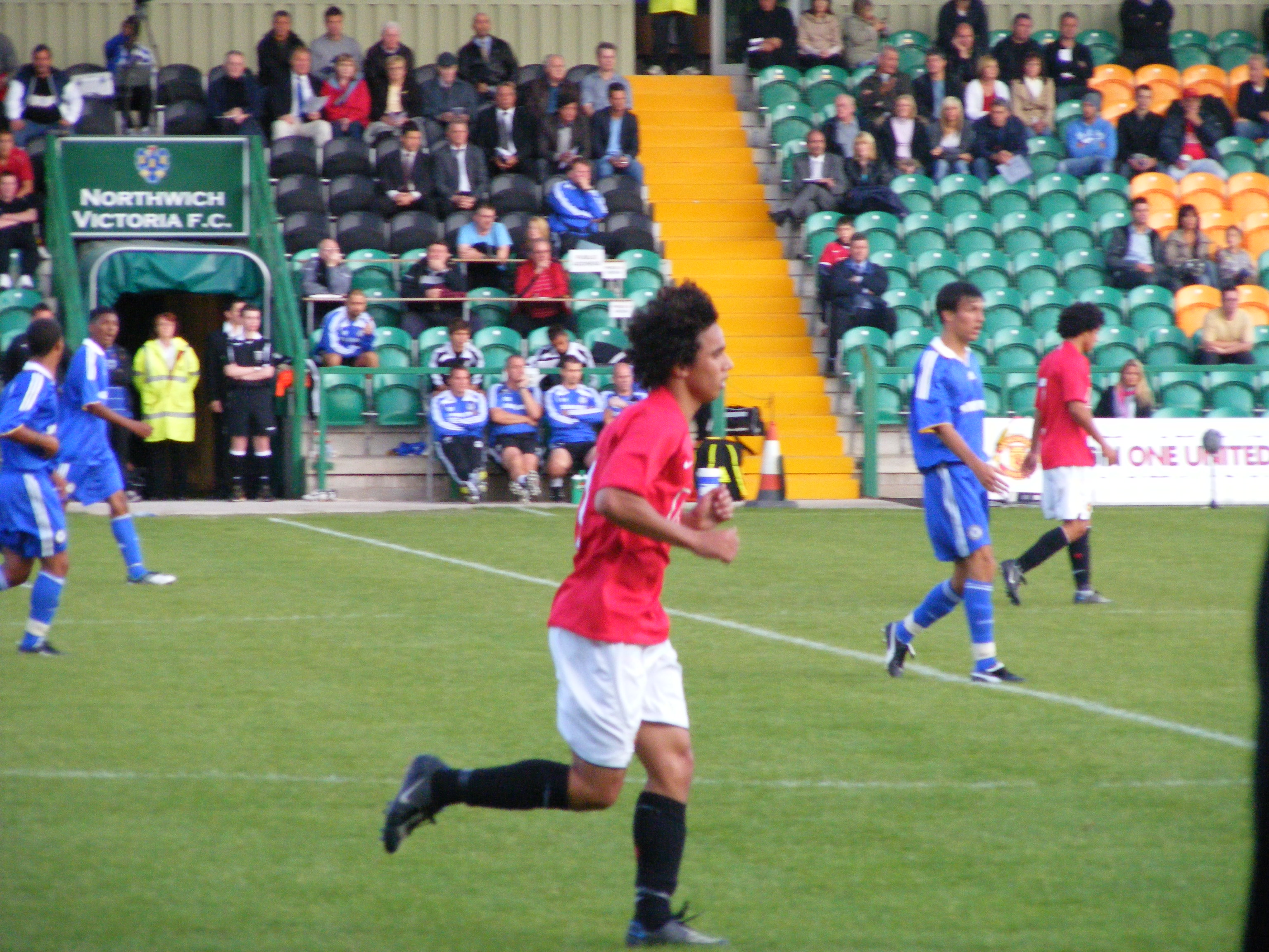 Author United88 Fabio da Silva playing for Manchester United reserves at the Victoria Stadium, Northwich against Chelsea Reserves on 18 August 2008.